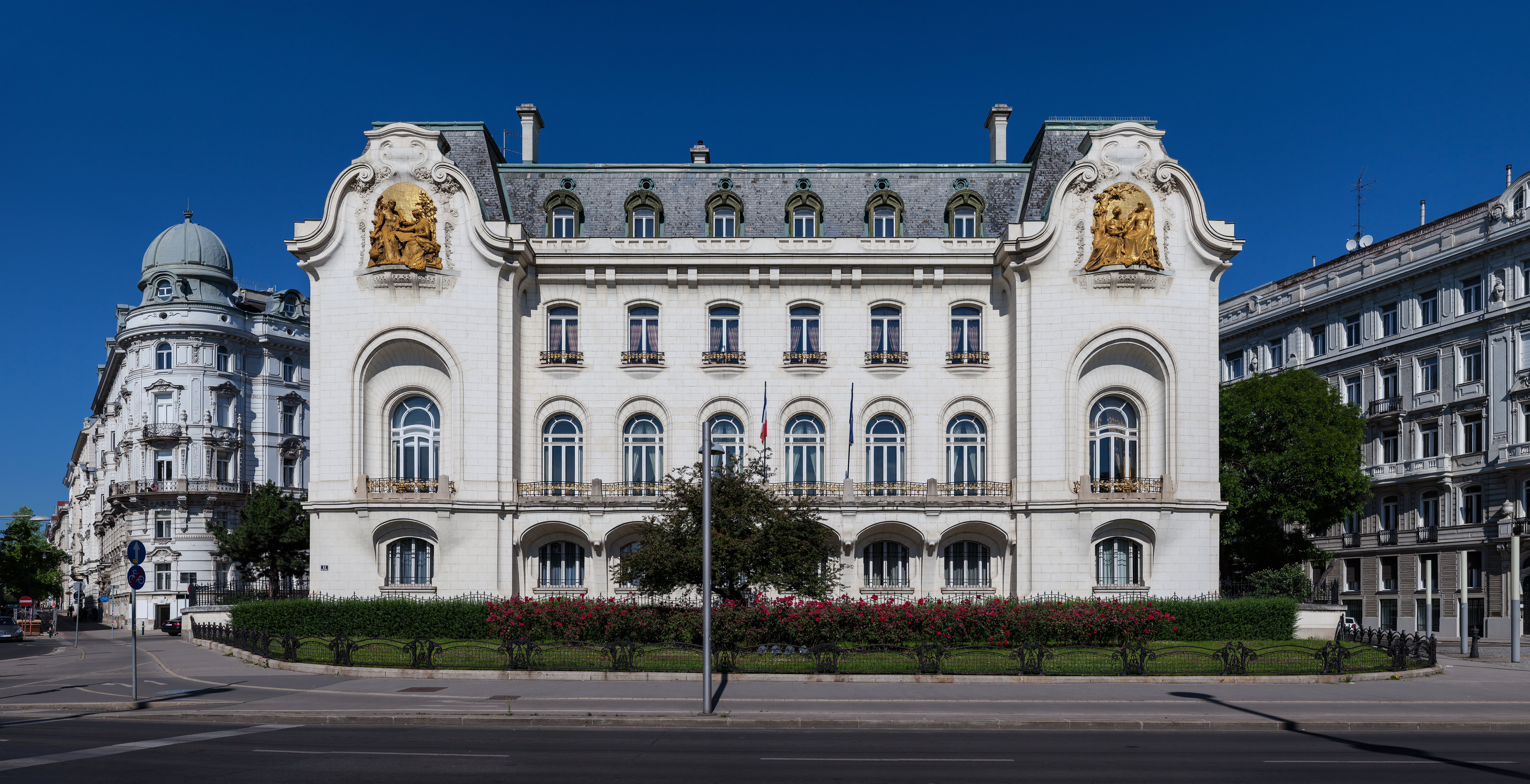 French embassy in Vienna, Austria